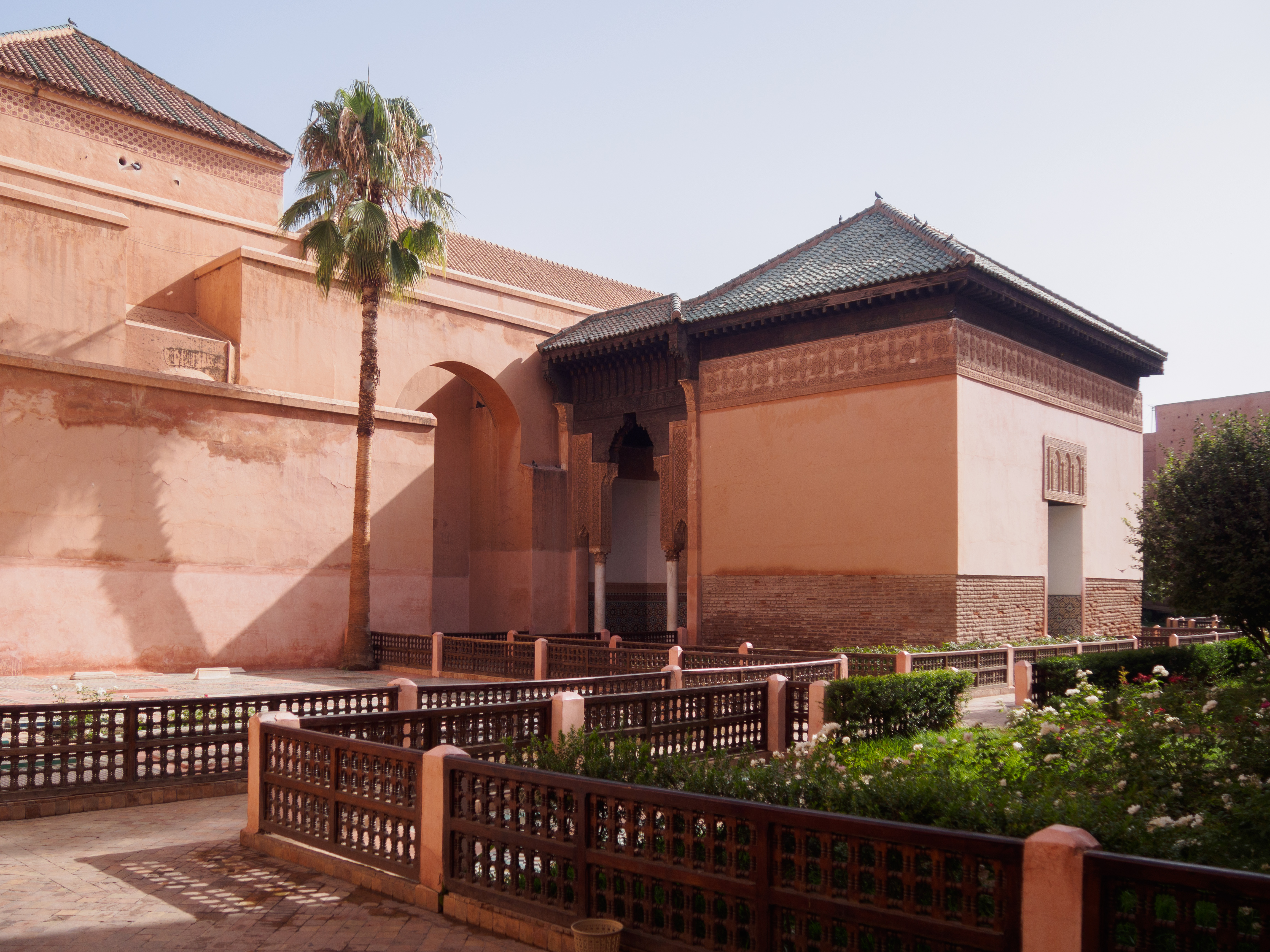 Saadian Tombs general interior view.